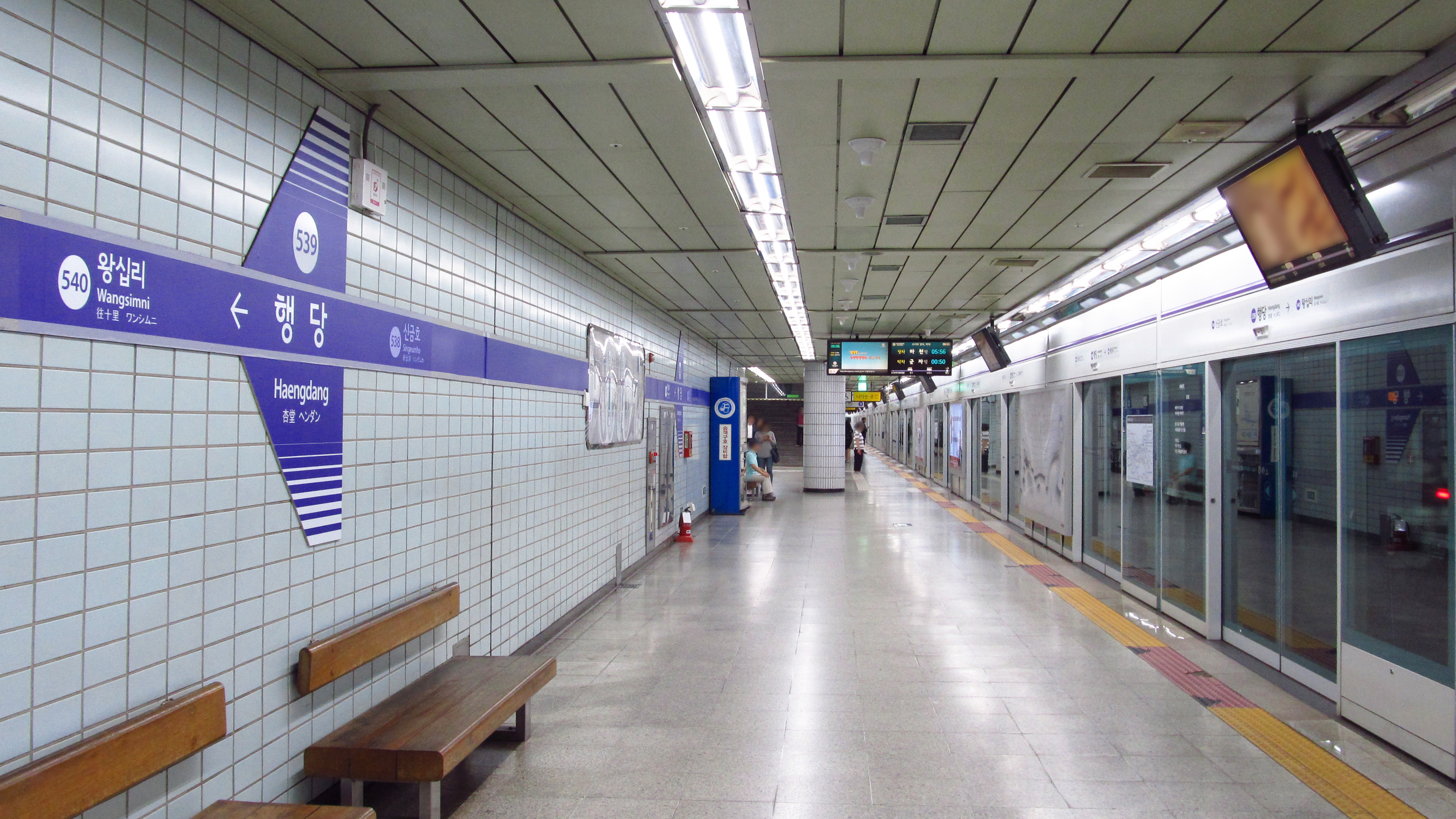 The platform at Haengdang Station on Seoul Subway Line 5 in Seongdong-gu, Seoul, Republic of Korea(South Korea)